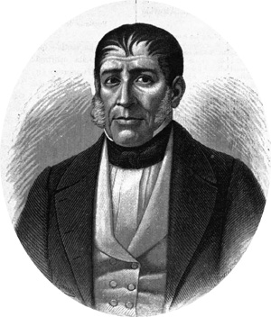 José Joaquín de Herrera